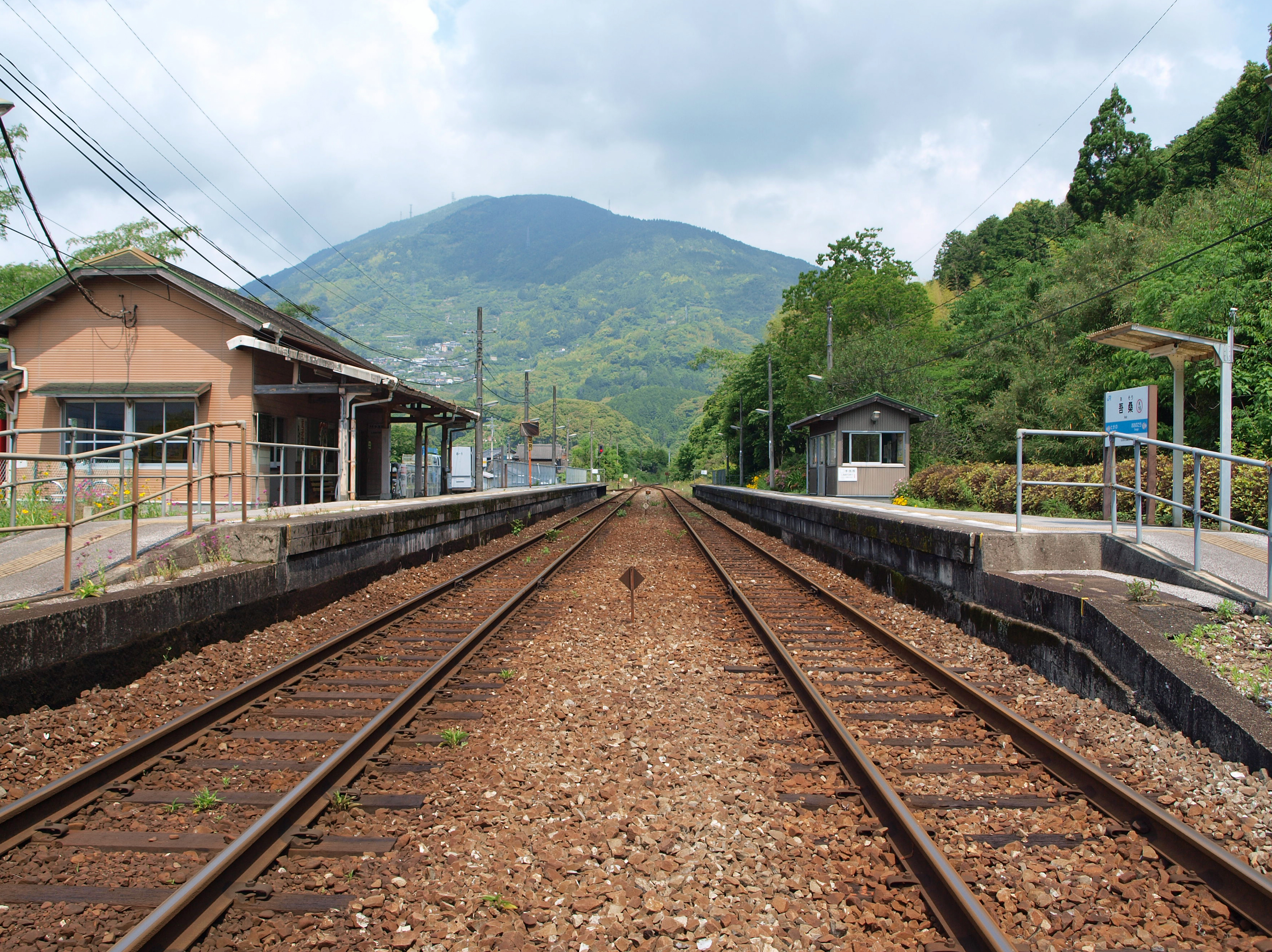 Asō station, Dosan-line, JR Shikoku, Japan